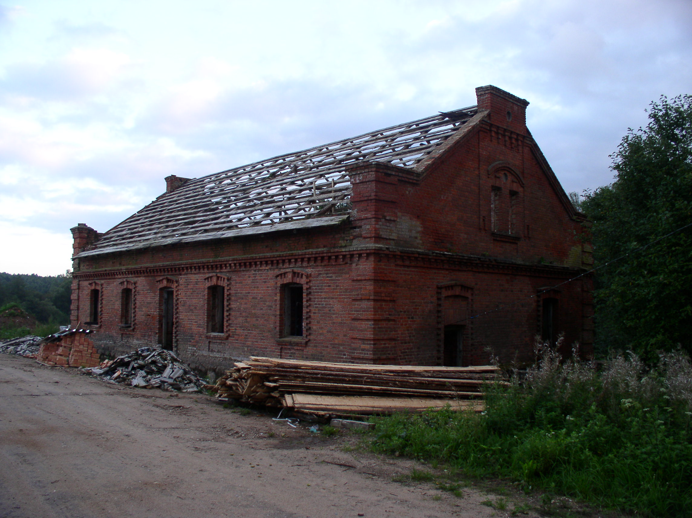 House. Manor of Lenski family. Sula, Belarus.